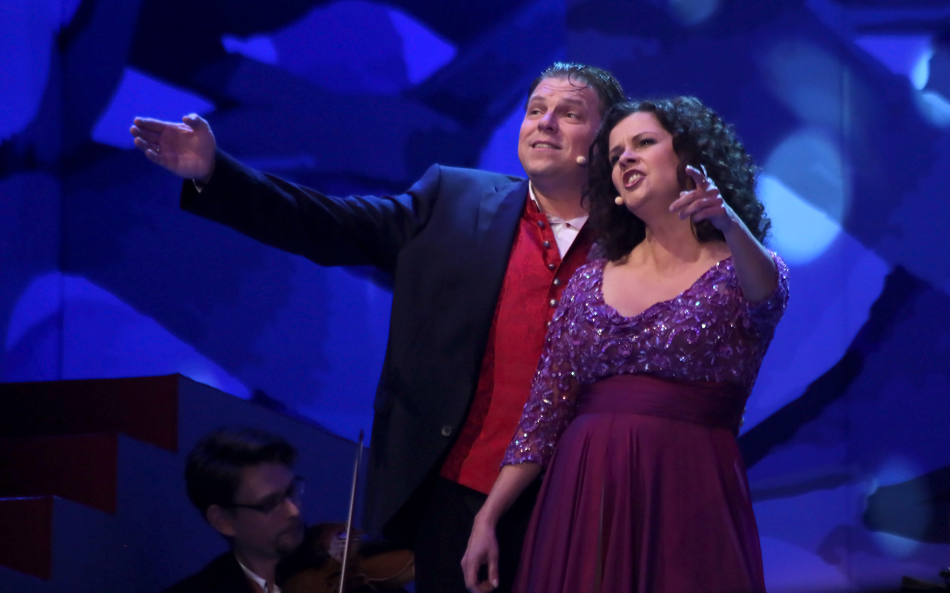 Angelika Kirchschlager and Michael Schade with the Philharmonia Schrammeln Wien - opening evening of the Vienna Festival 2013 at the square in front of the Rathaus in Vienna, Austria